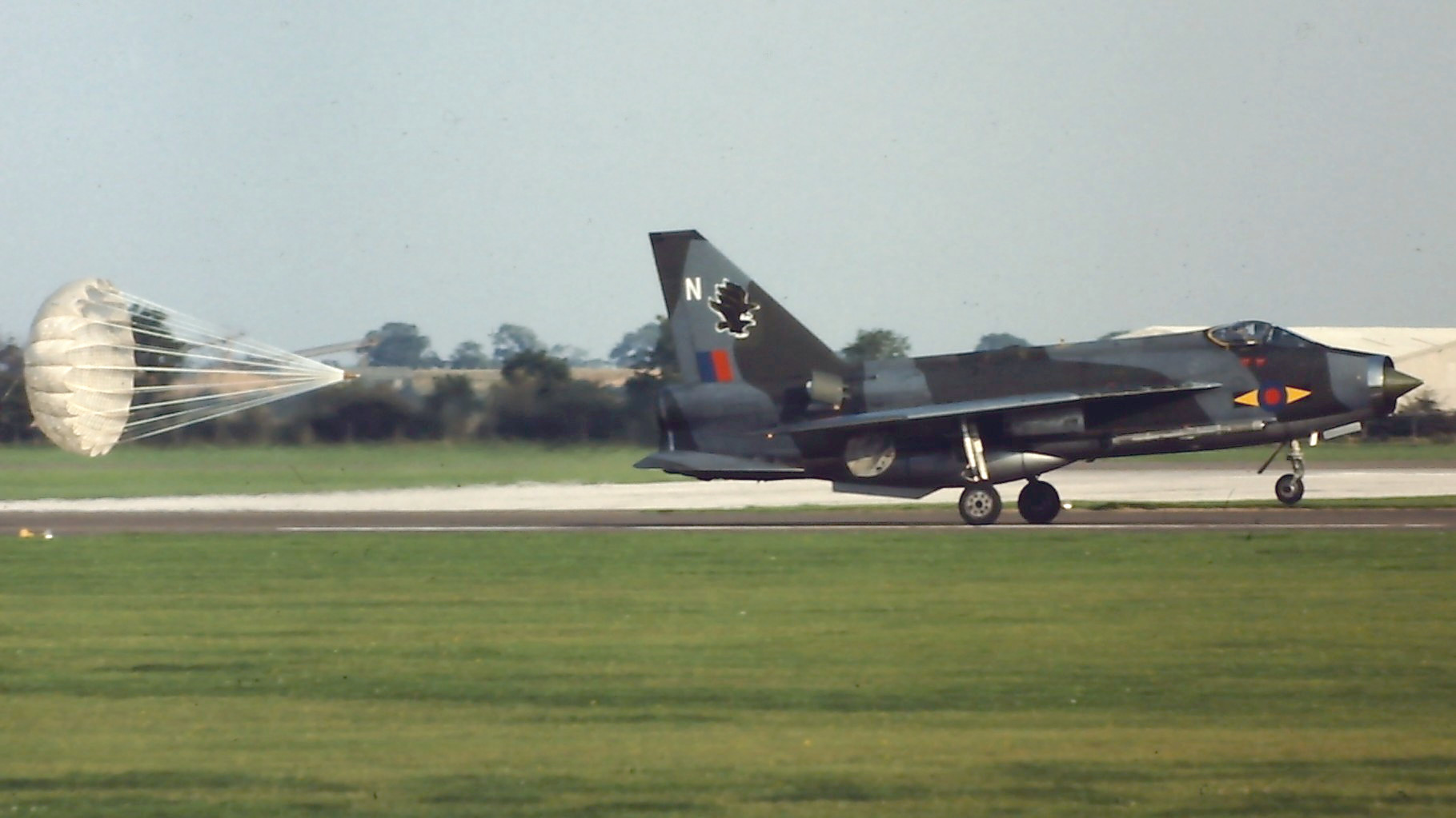 English Electric Lightning F3 "XP702" coded "N" of 11 Squadron Royal Air Force landing at RAF Finningley, Yorkshire. (scan from slide)